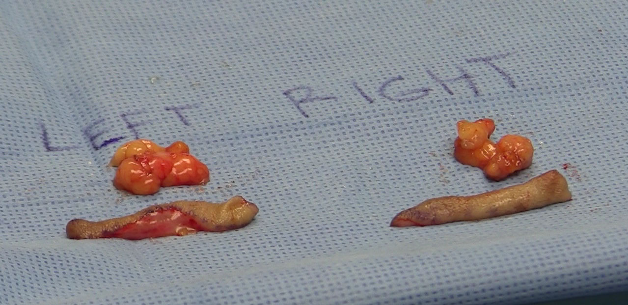 The fat removed from a transconjunctival lower-lid blepharoplasty, and the skin removed from an upper-lid blepharoplasty.